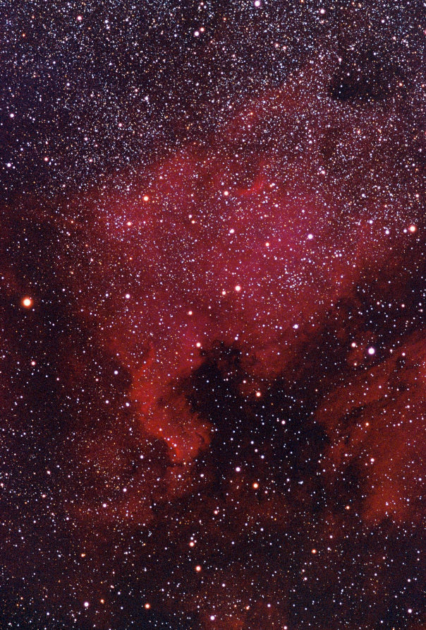 The North America Nebula (also known as NGC 7000) is an emission nebula in the Cygnus constellation, close to Deneb with a shape that reminds of North America. Photographed at La Palma, Roque de los Muchachos (Degollada de los Franceses). Photo taken the following equipement: Camera/Telecope: Pentax SDHF 500 6.7/500 on GP/DX, tracing ST4 at 500mm (Prakticar 500) Exposure: 40 min Film: Kodak E200 35mm (Push to 600 ASA) Scanner: Scan service Processing: Removed vignetting, colour and contrast correction. additional remark: faintest object visible at 6.5 mag